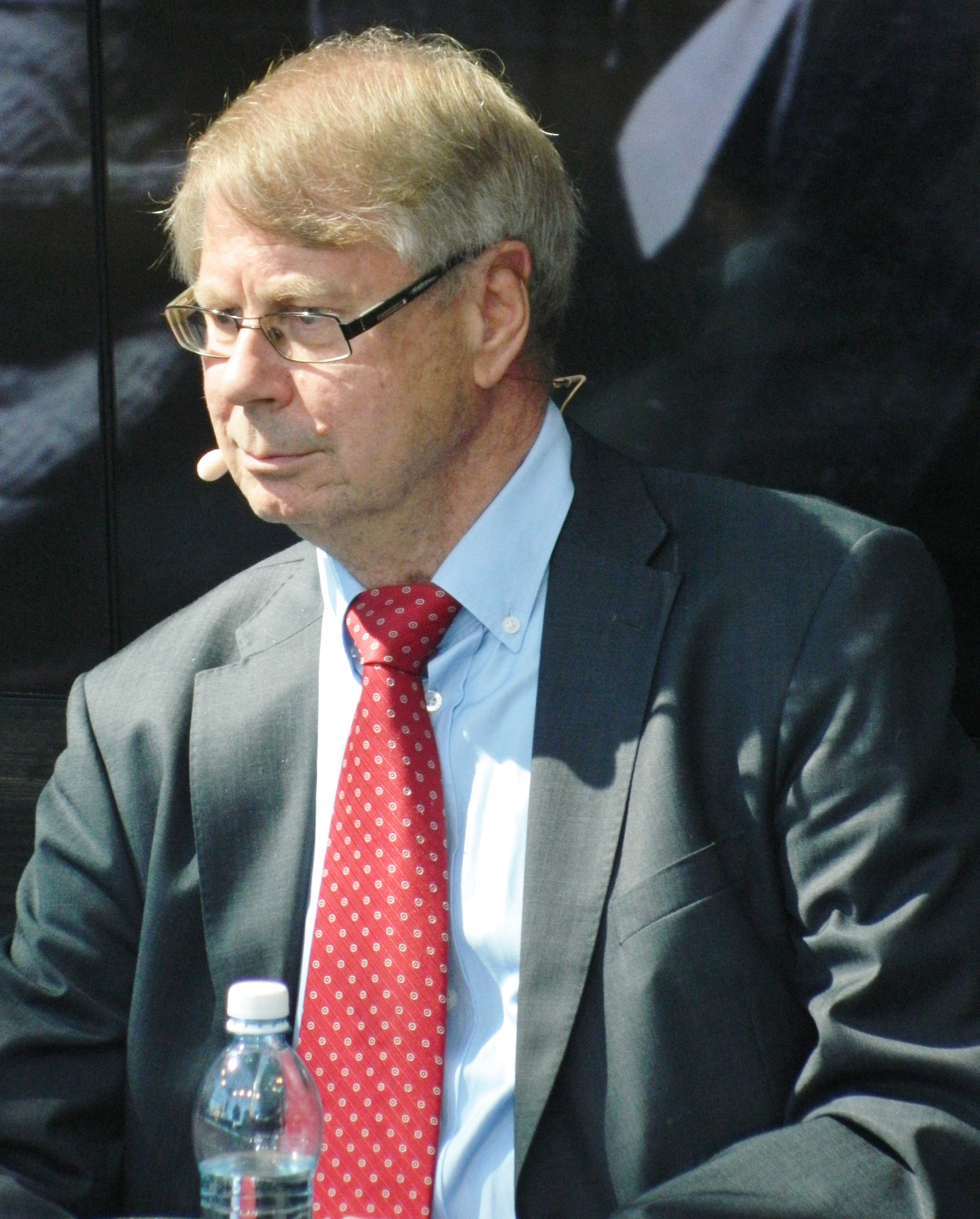 Jaakko Laakso at the Sanomatalo Media Center, Helsinki